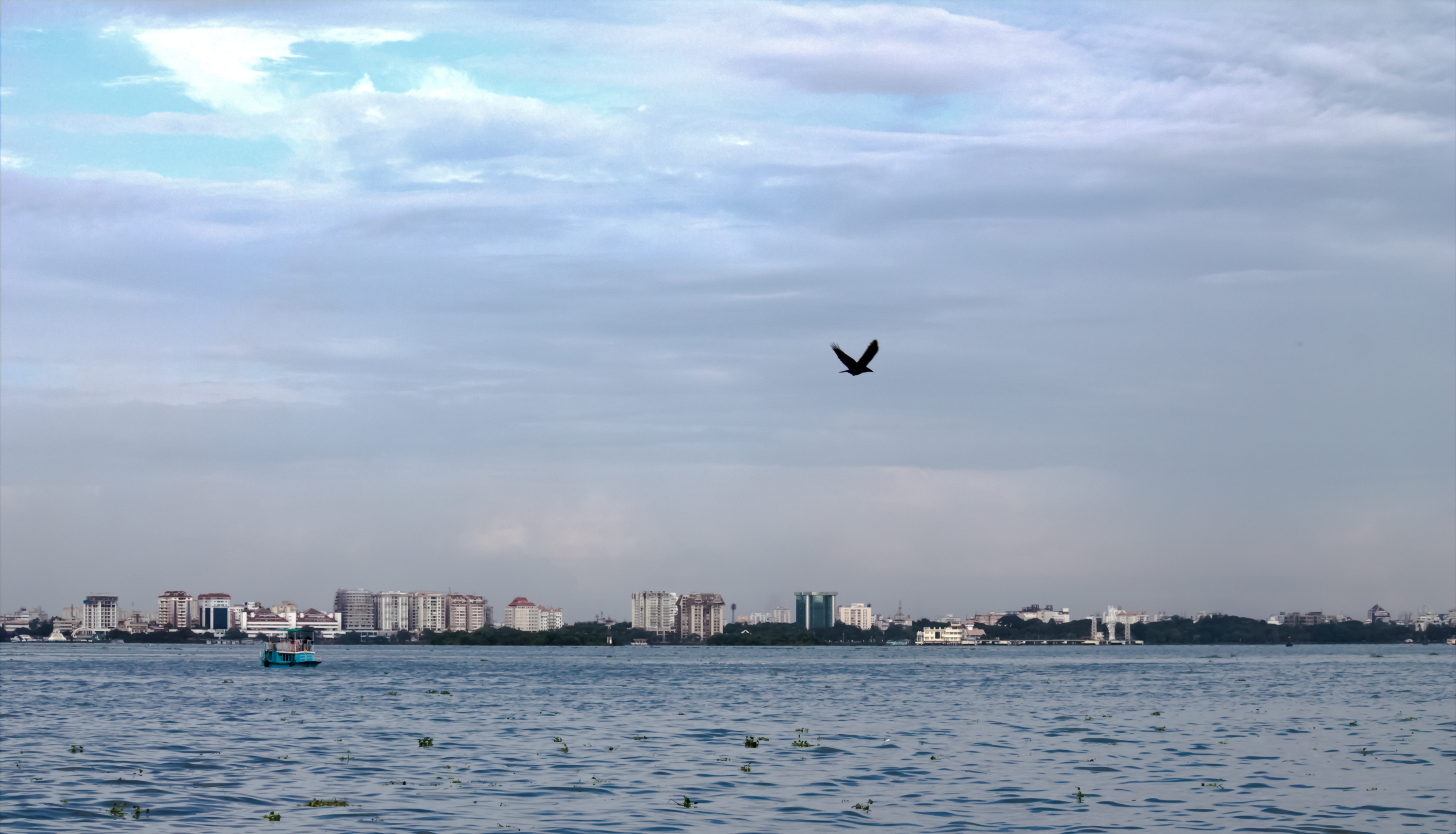 The skyline of Kochi. View from Vypin jetty